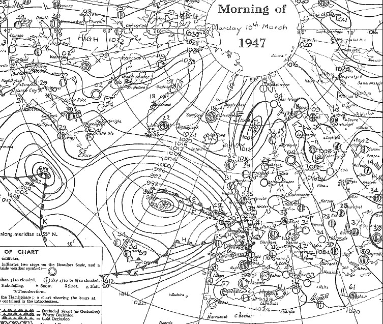 Pressure chart of the Northern Hemisphere on 10th Mar 1947